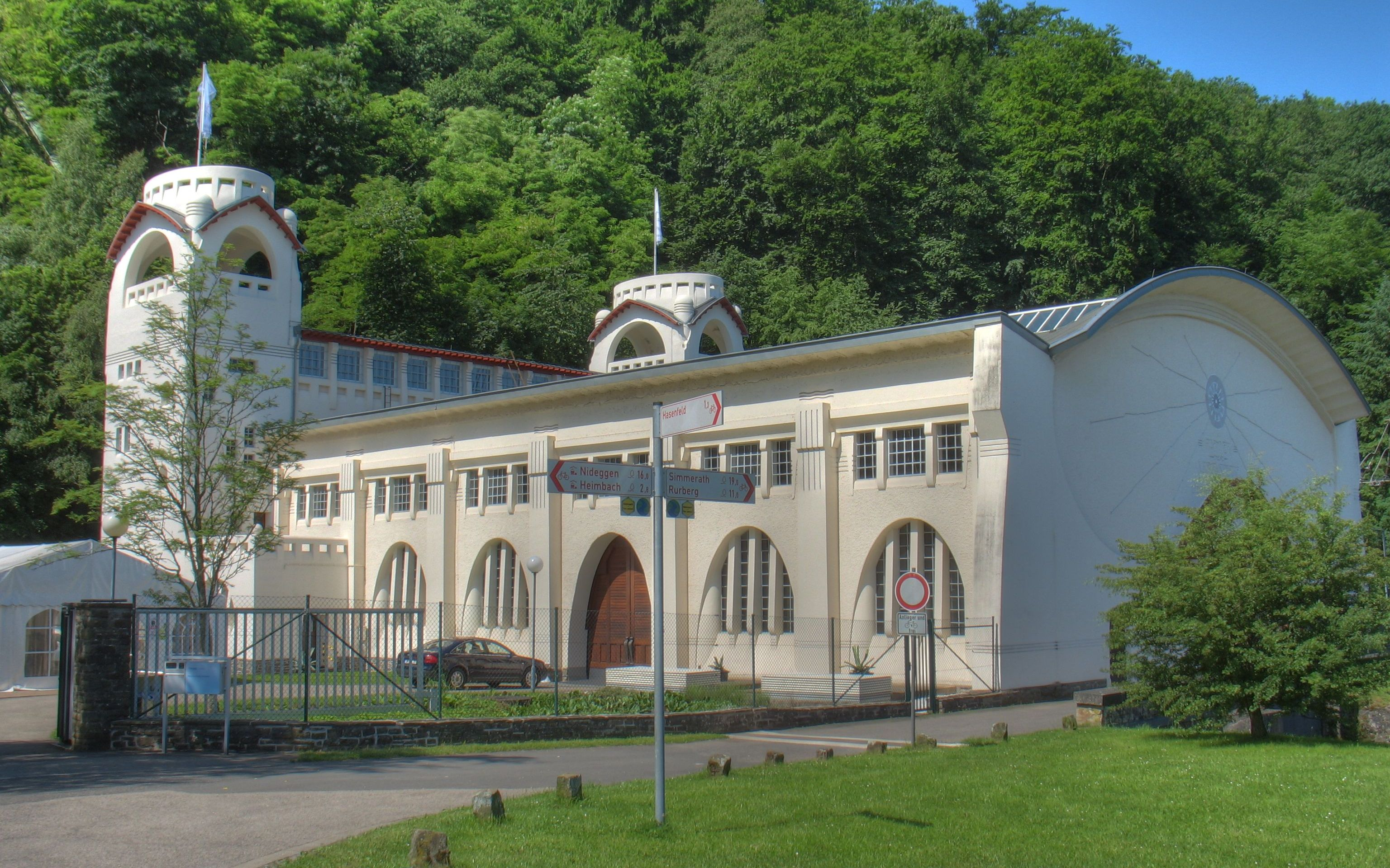 The hydroelectric power plant in Heimbach (Germany)